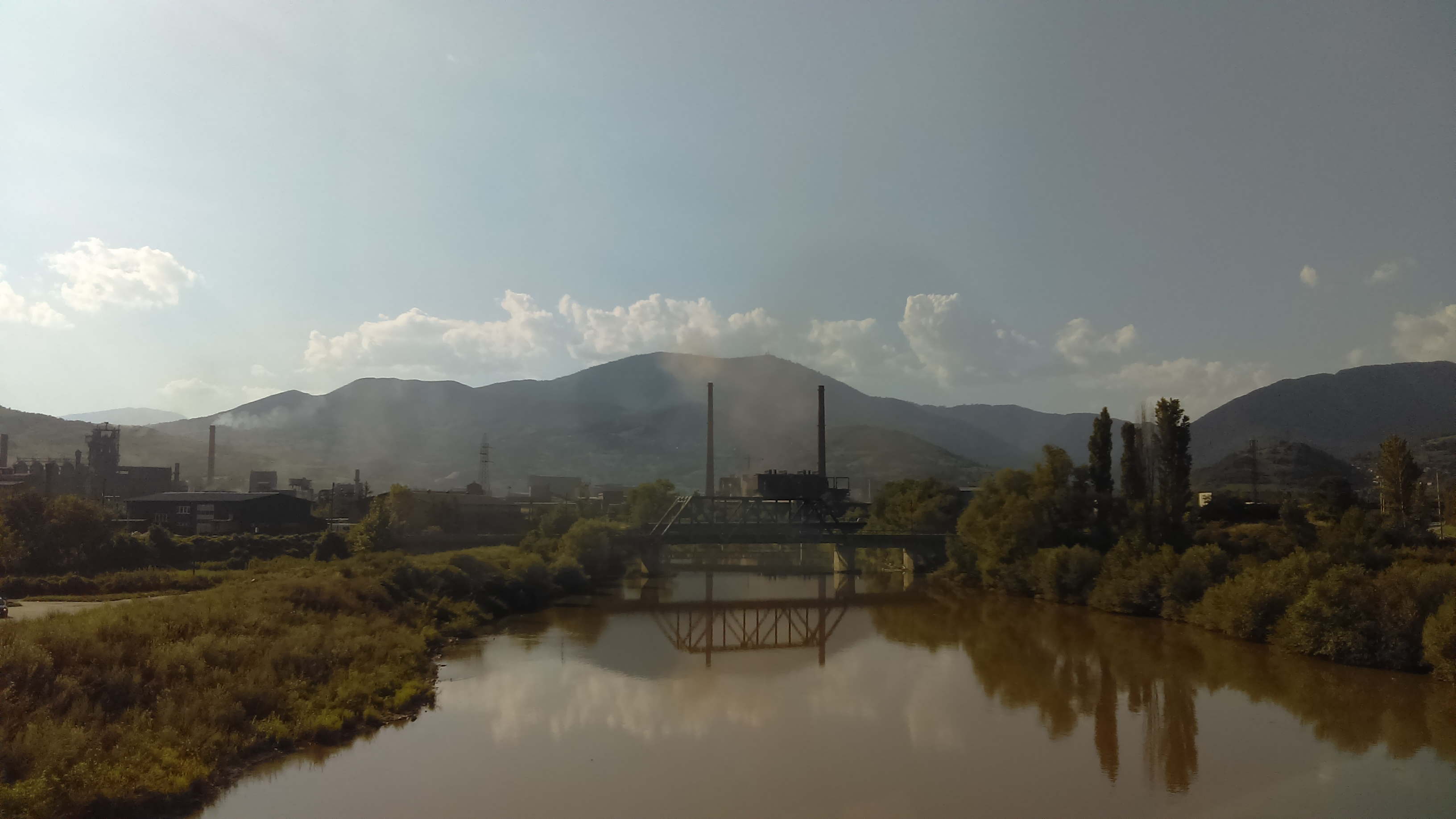 Zenica Steel Factory, BiH